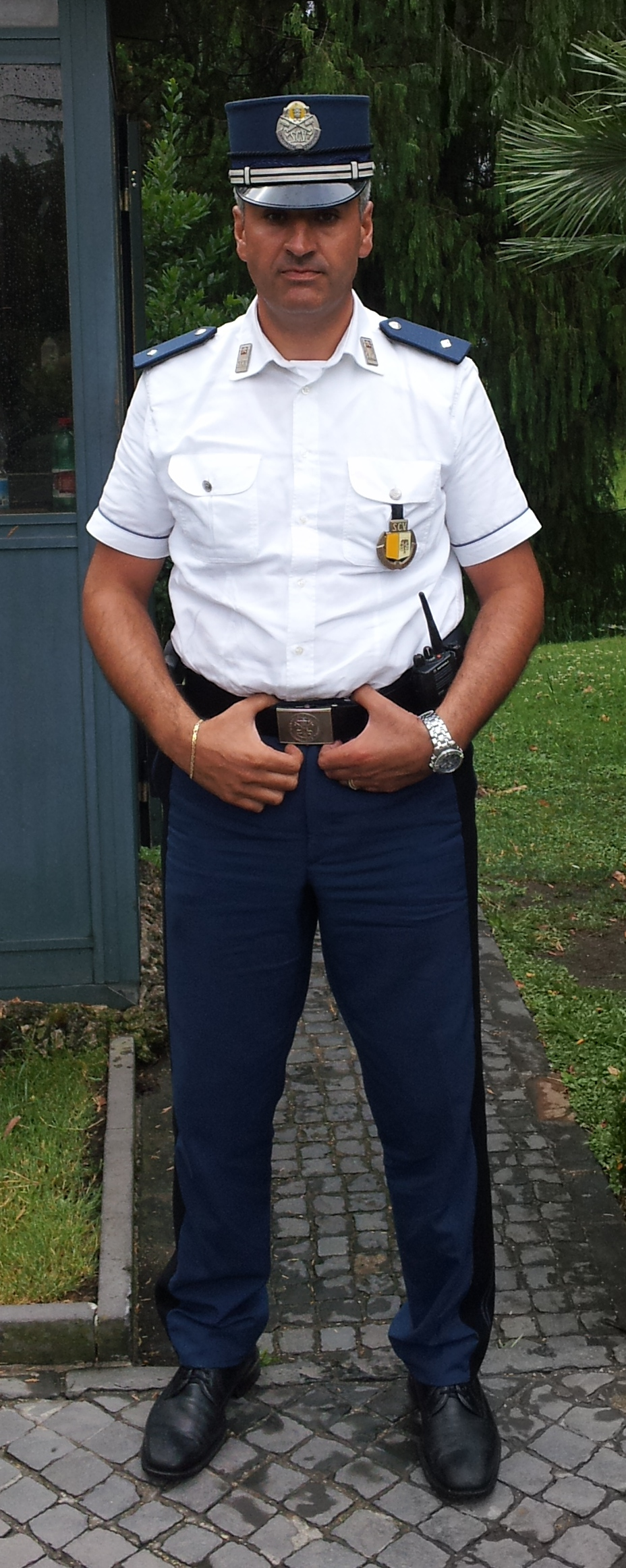 Vatican City police officer in summer uniform